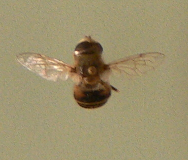 Eristalis gatesi Pictures taken by myself at the Audubon Insectarium